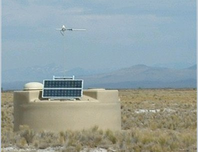 "SD Tank of the Pierre Auger Observatory, Malargue, Mendoza/Argentina"